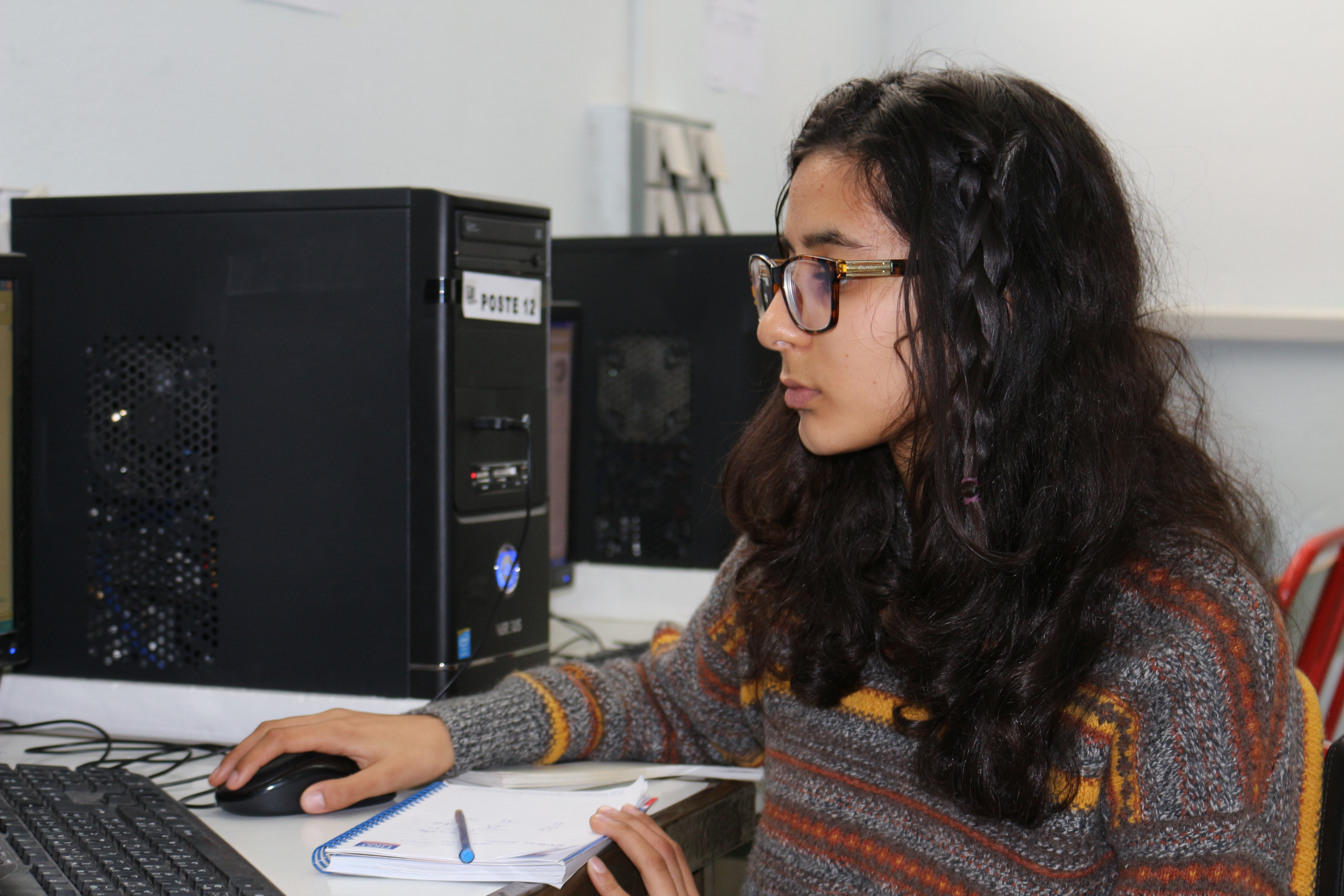 Workshop to teach new Wikipedians how to edit Wikipedia.